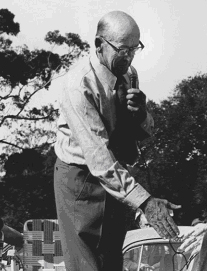 A picture of Captain Russell Savige